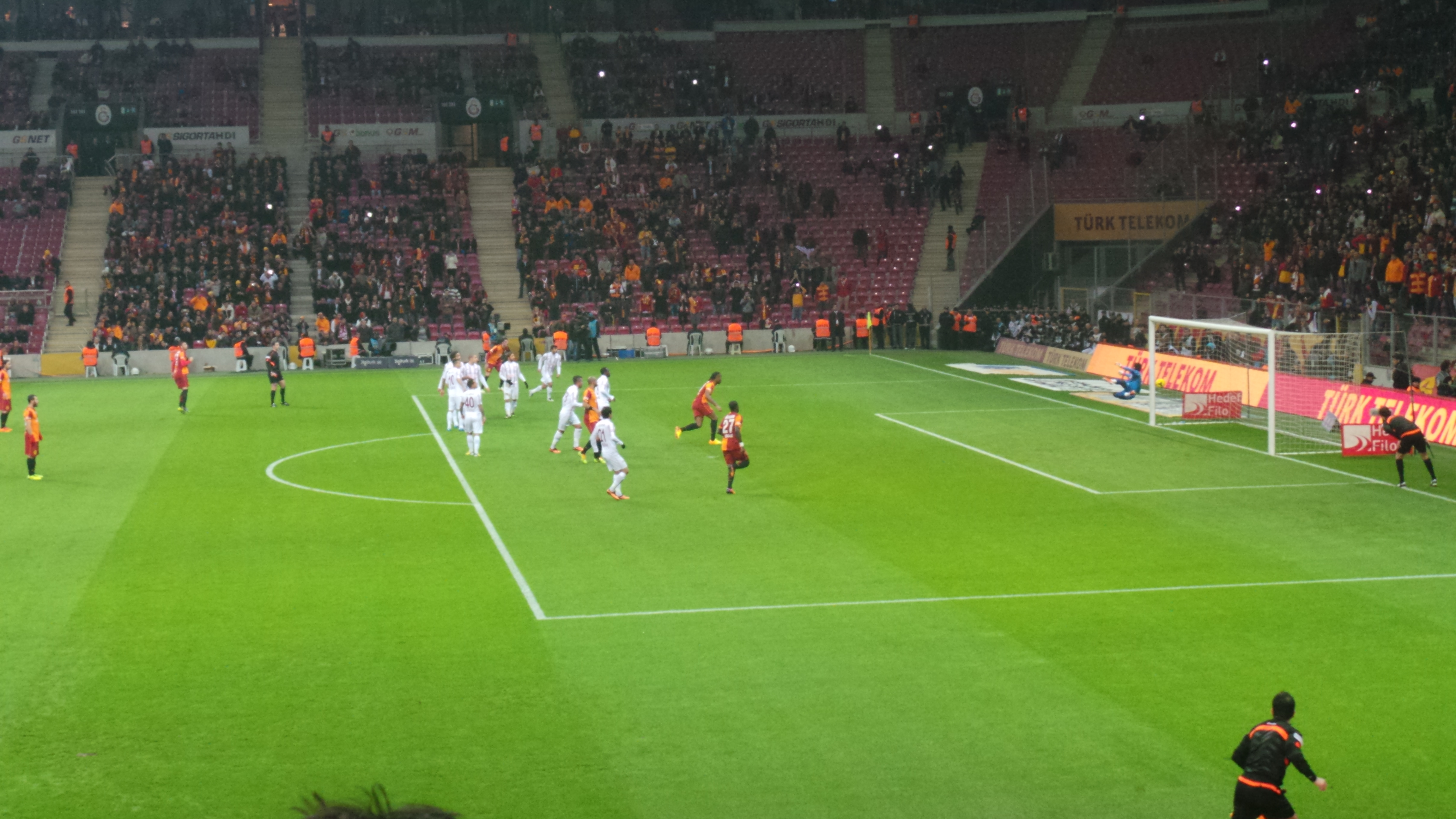 Burak Yılmaz'ın Elazığspor'a attığı gol